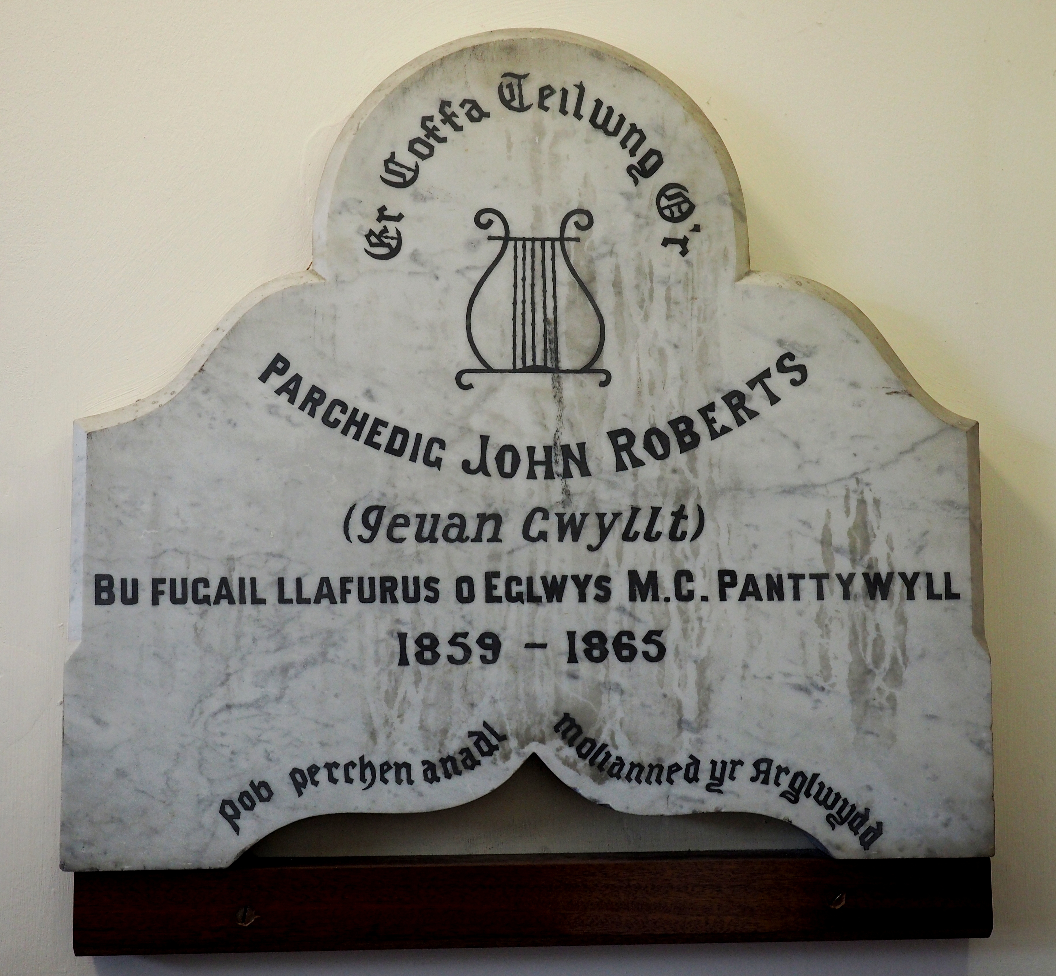 Memorial stone to the Welsh musician and minister John Roberts (Ieuan Gwyllt) (1822-1877). Located in Canolfan Soar in Merthyr Tydfil, Wales, formerly Zoar Chapel.The dates on the memorial are Roberts' time as minister of Pant-tywyll Calvinistic Methodist church in Merthyr Tydfil. The memorial may have been originally in Pant-tywyll church. This is not a gravestone, Roberts was buried near Caernarfon.